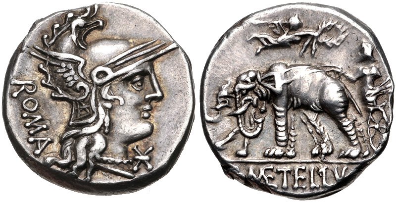 C. Caecilius Metellus Caprarius. 125 BC. AR Denarius (16mm, 3.90 g, 6h). Rome mint. Helmeted head of Roma right; mark of value below chin / Jupiter driving biga of elephants left, holding reins and thunderbolt; above, Victory flying right, holding wreath. Crawford 269/1; Sydenham 485; Caecilia 14. EF, handsome toning. Excellent silver quality.